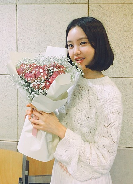 kbs radio